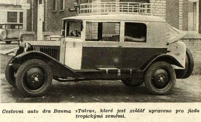 Czech car Tatra 12, special modification for Africa travellers, 1931